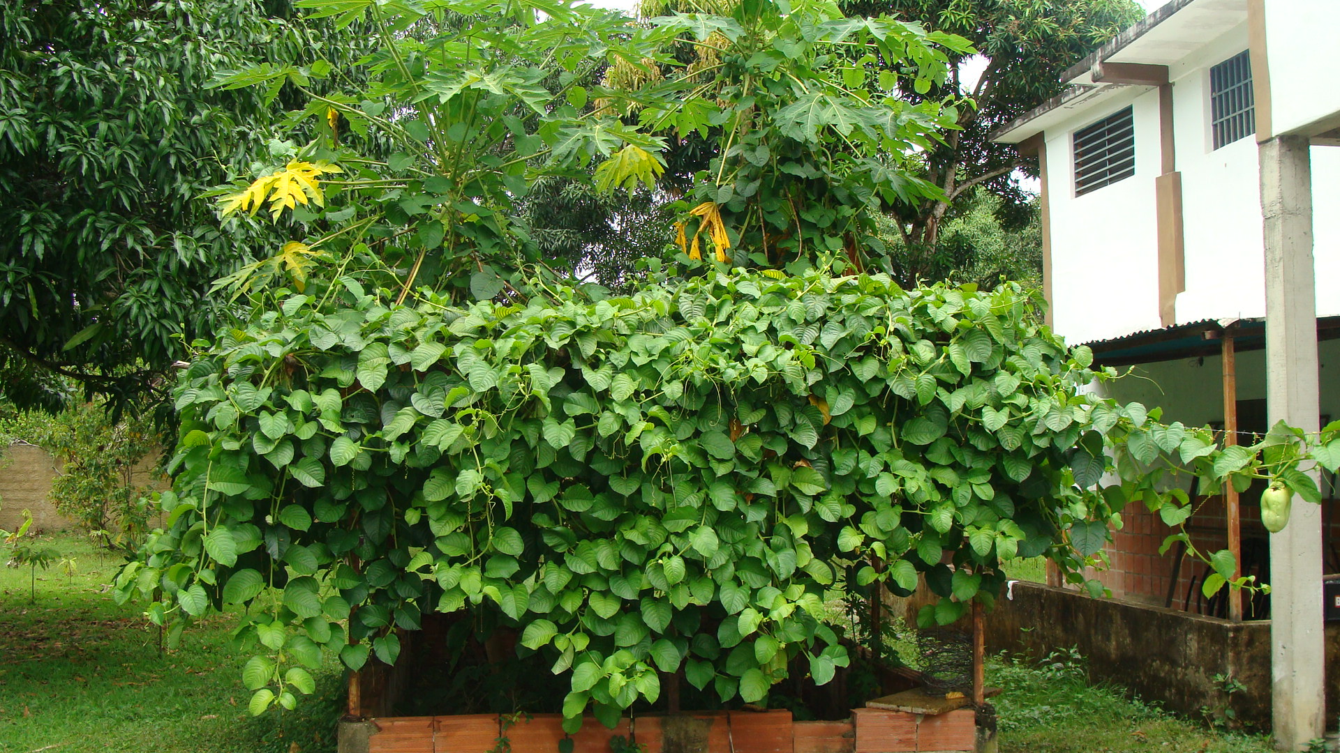 Passiflora quadrangularis